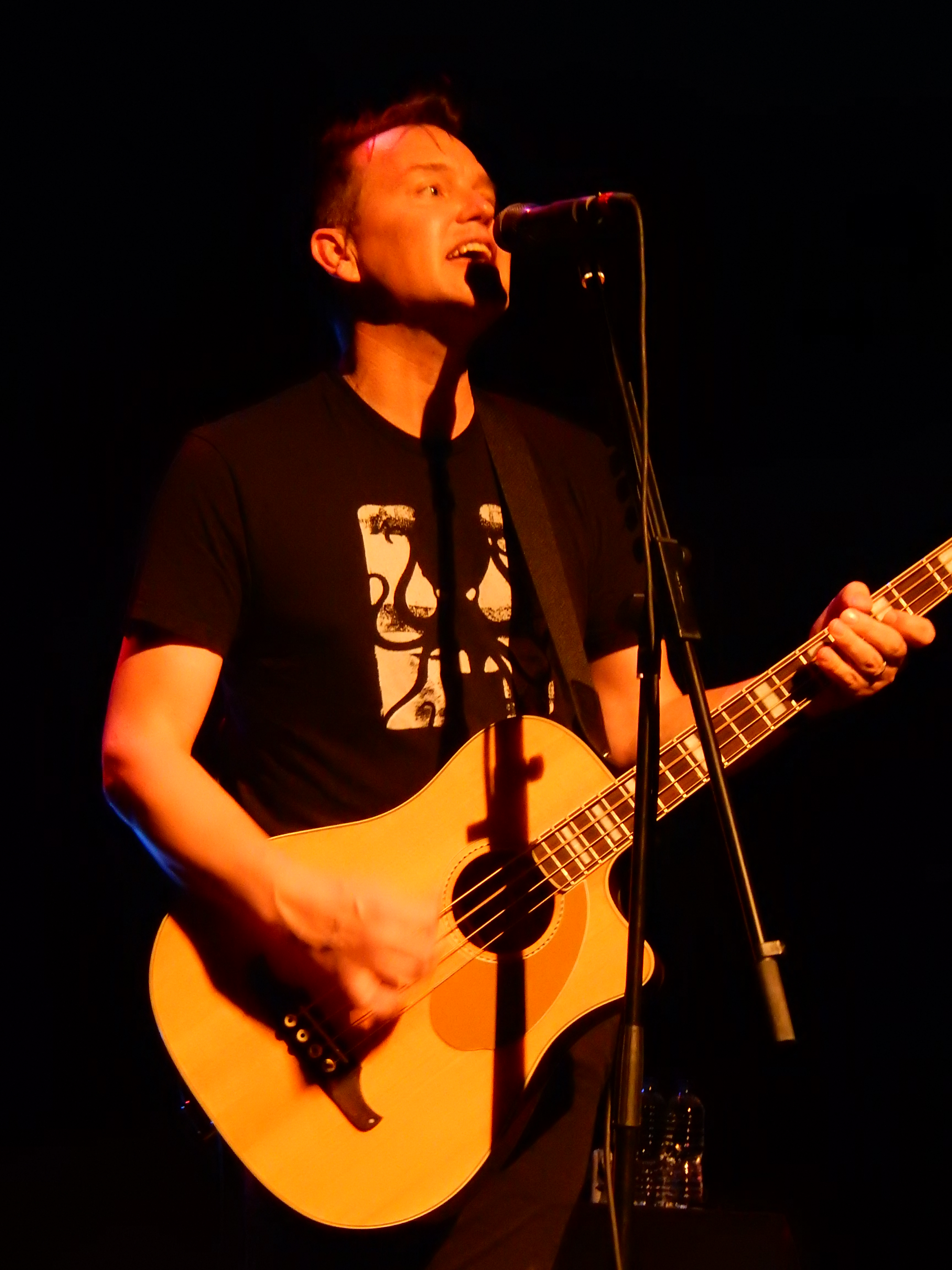 Blink-182, Rose Theatre, Kingston